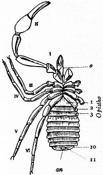 Garypus litoralis, one of the Pseudoscorpiones. Ventral view. I to VI, Prosomatic appendages. o, Sterno-coxal process of the basal segment of the second appendage. 1, Sternite of the genital or first opisthosomatic somite; the prae-genital somite, though represented by a tergum, has no separate sternal plate. 2 and 3, Sternites of the second and third somites of the opisthosoma, each showing a tracheal stigma. 10 and 11, Sternites of the tenth and eleventh somites of the opisthosoma. an, Anus.(Original by Pocock and Pickard-Cambridge.)